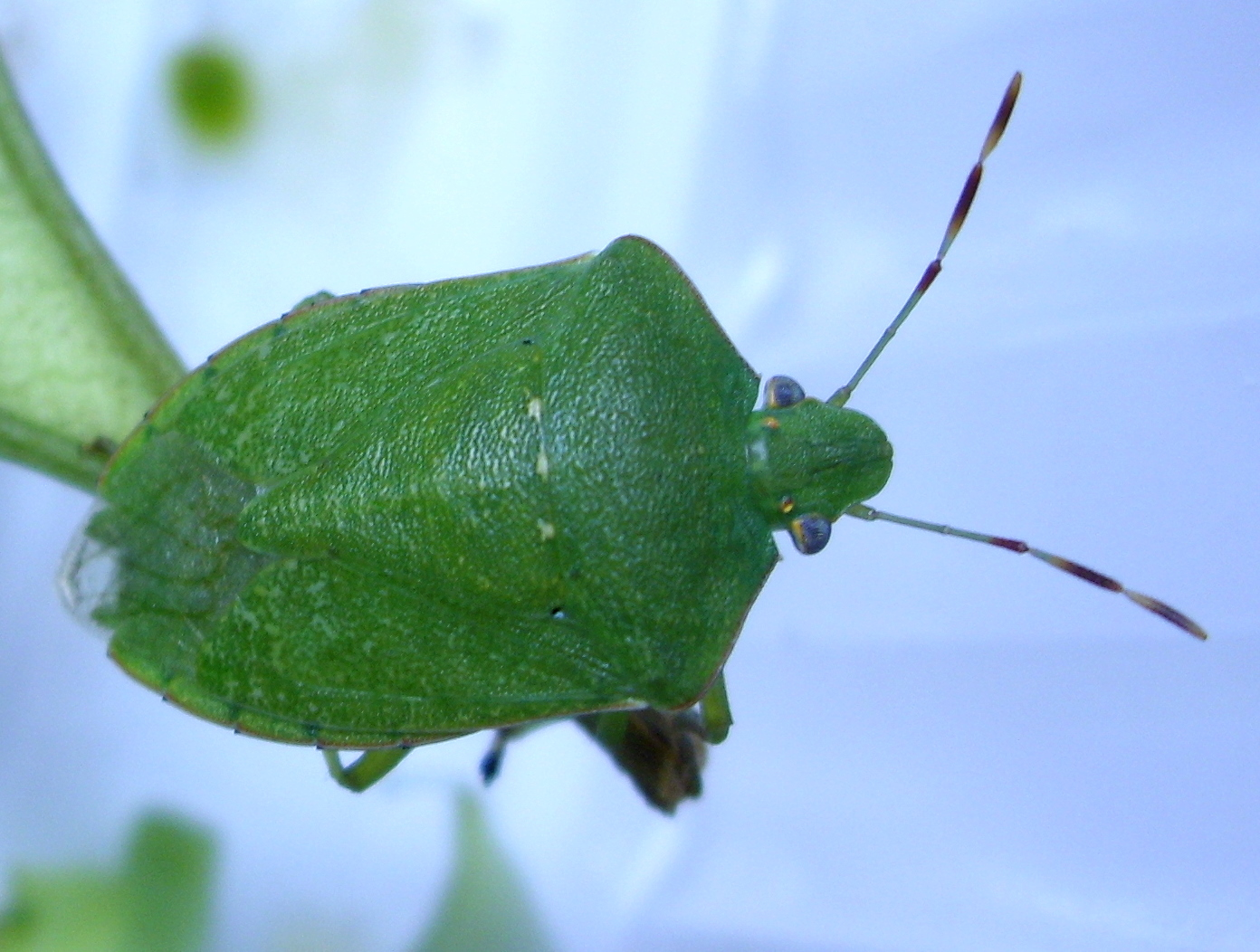 Nezara viridula adult in Budapest, 2010 September